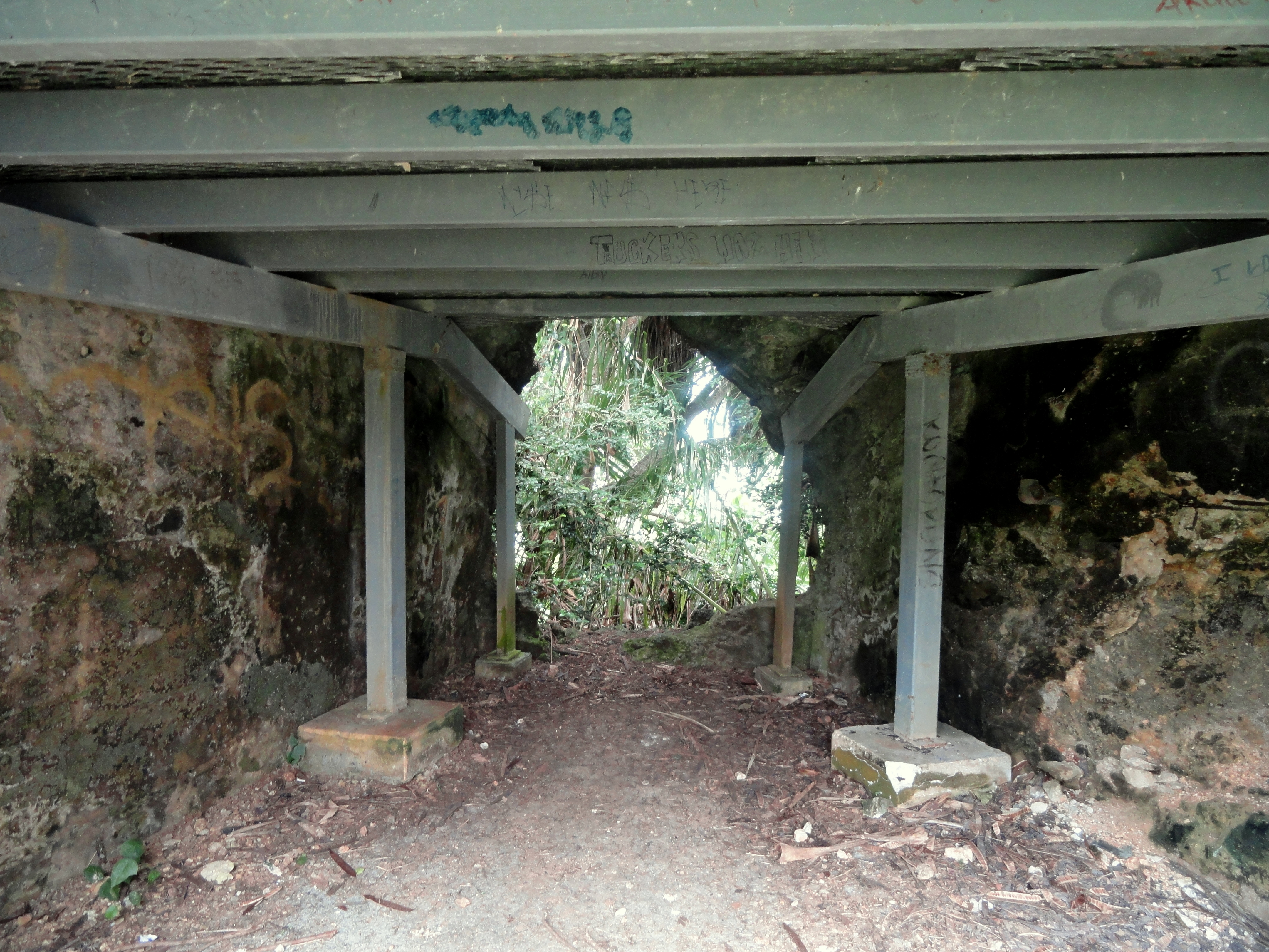 War in the Pacific National Historical Park (Ga'an Point), Agat, Guam, USA.